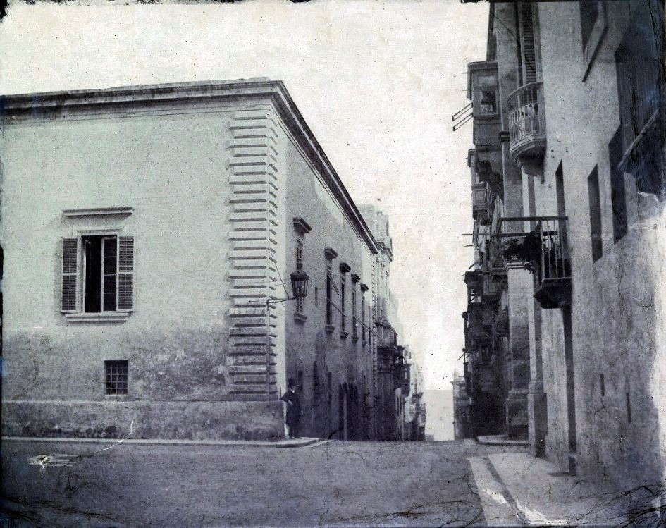 Calvert Jones, Auberge d'Aragon, Valetta, Malta 1846